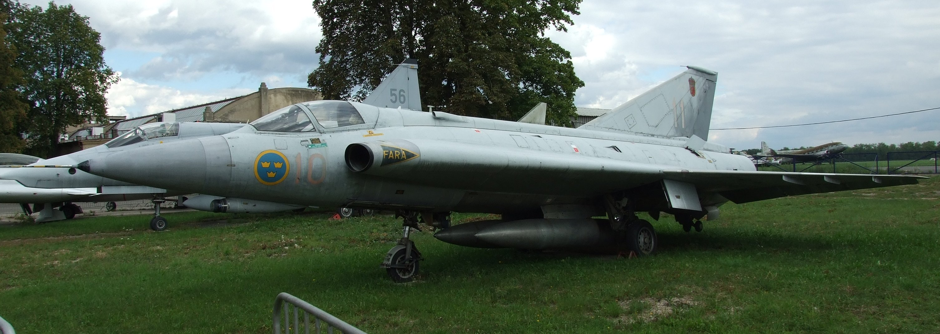 Swedish Saab J 35J Draken fighter (Aircraft muzeum Kbely